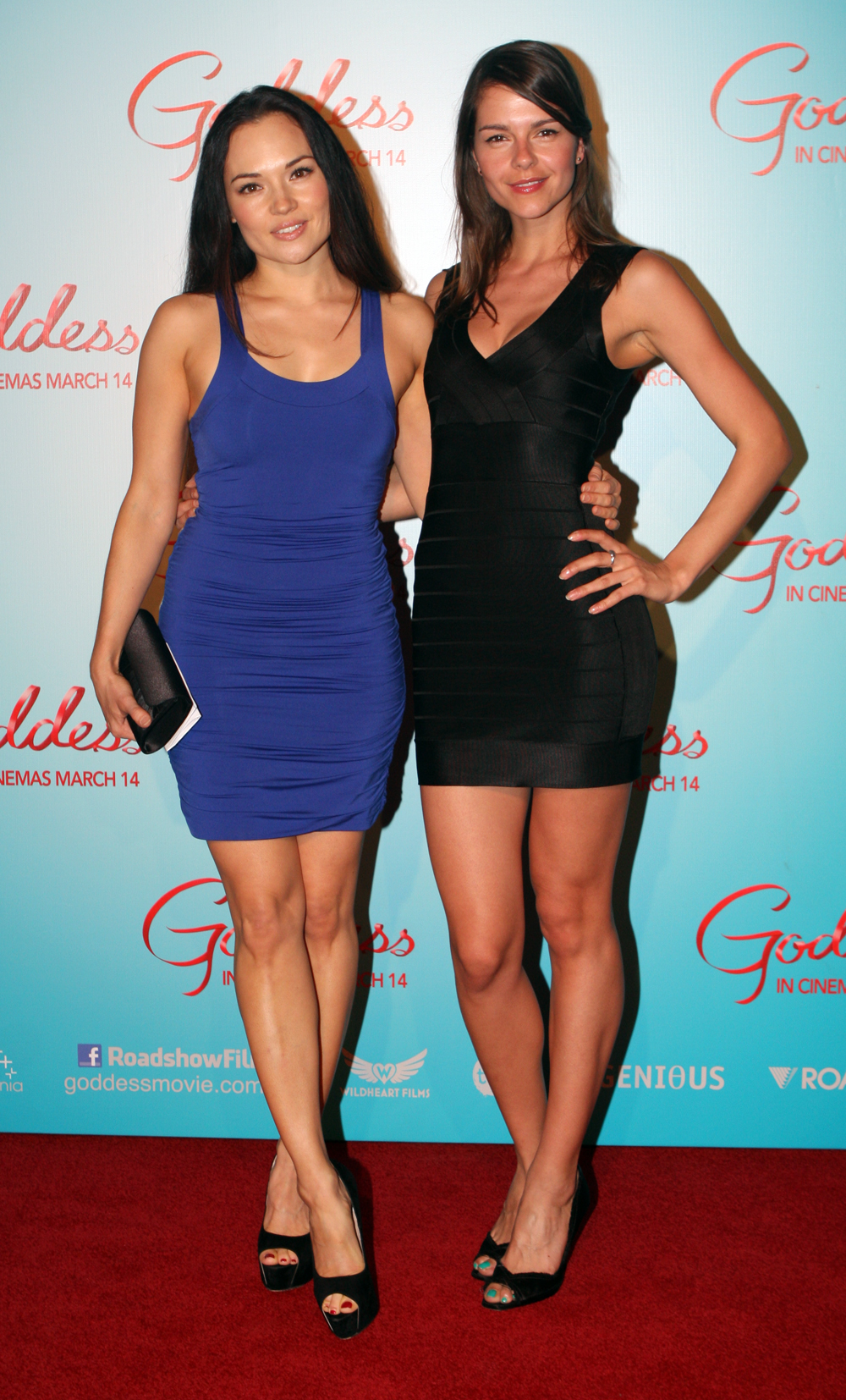 L to R: Tasneem Roc and Susan Hoecke at the 'Goddess' world premiere; Bondi Junction, Sydney, Australia. 'Goddess' enjoyed its Sydney, Australia premiere at Event Cinemas, Bondi Junction earlier this evening. Irish sensation Ronan Keating was there, as was West End and Broadway star Laura Michelle Kelly and much-loved comedian Magda Szubanski. Directed by: Mark Lamprell Starring: Ronan Keating, Magda Szubanski and Laura Michelle Kelly When a young mother mother of naughty twin boys Elspeth Dickens installs a webcam in her kitchen, her funny sink-songs make her a cyber-sensation. While husband James is off saving the world's whales, Elspeth is offered a chance of a lifetime. But when forced to choose between fame and family, the newly anointed internet goddess almost loses it all. Cast members attending world premiere: Ronan Keating, Laura Michelle Kelly, Magda Szubanski, Hugo Johnstone-Burt, Dustin Clare, Natalie Tran, Celia Ireland, Mike Goldman and director Mark Lamprell. Plot... Elspeth Dickens dreams of finding her "voice" despite being stuck in an isolated farmhouse with her twin toddlers. A web-cam becomes her pathway to fame and fortune, but at a price. Websites Village Roadshow Australia Eva Rinaldi Photography